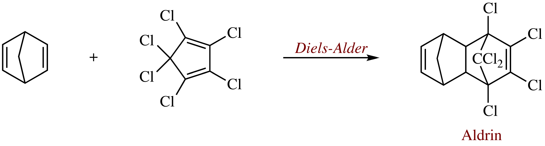 Aldrin synthesis